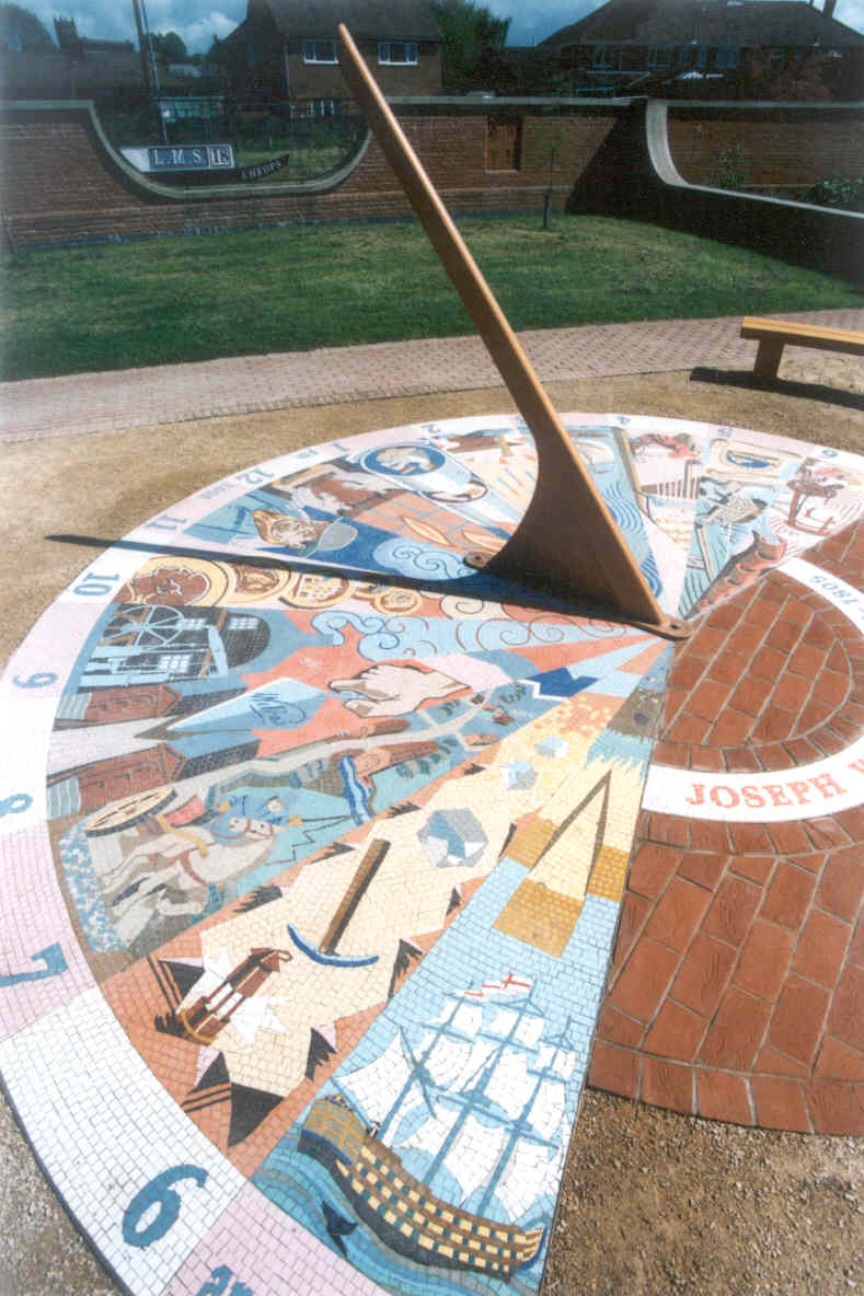 Photo by the artist Steve Field, of his sundial at Measham, Leicestershire, commemorating Joseph Wilkes